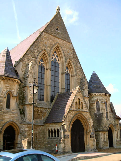 The Radcliffe Centre, Church Street, Buckingham, Buckinghamshire, seen from the southeast. A former non-Concormist chapel, now part of the University of Buckingham.